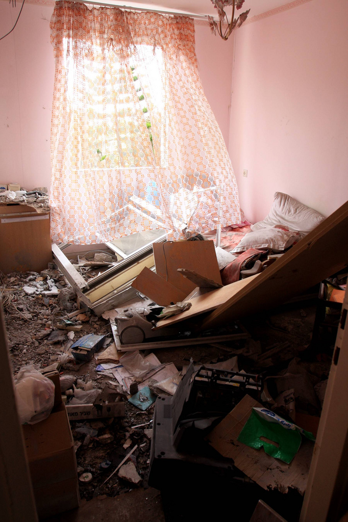 Grad rocket fired from Gaza hits Southern Israeli city Ashkelon and destroys a home